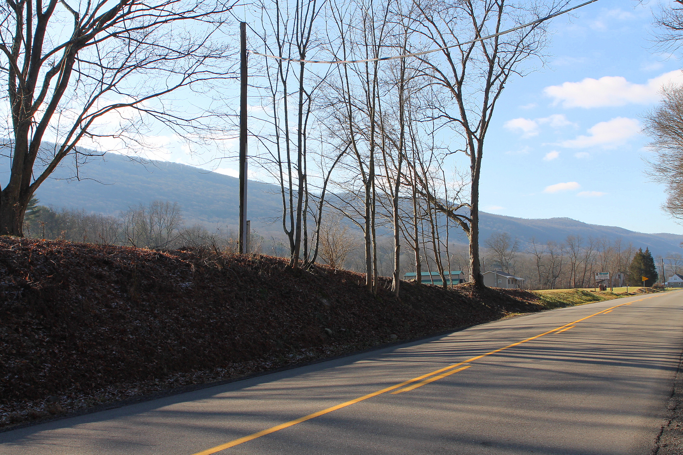 Fishing Creek Township, Columbia County, Pennsylvania from Winding Road in December 2014. Knob Mountain is in the background.